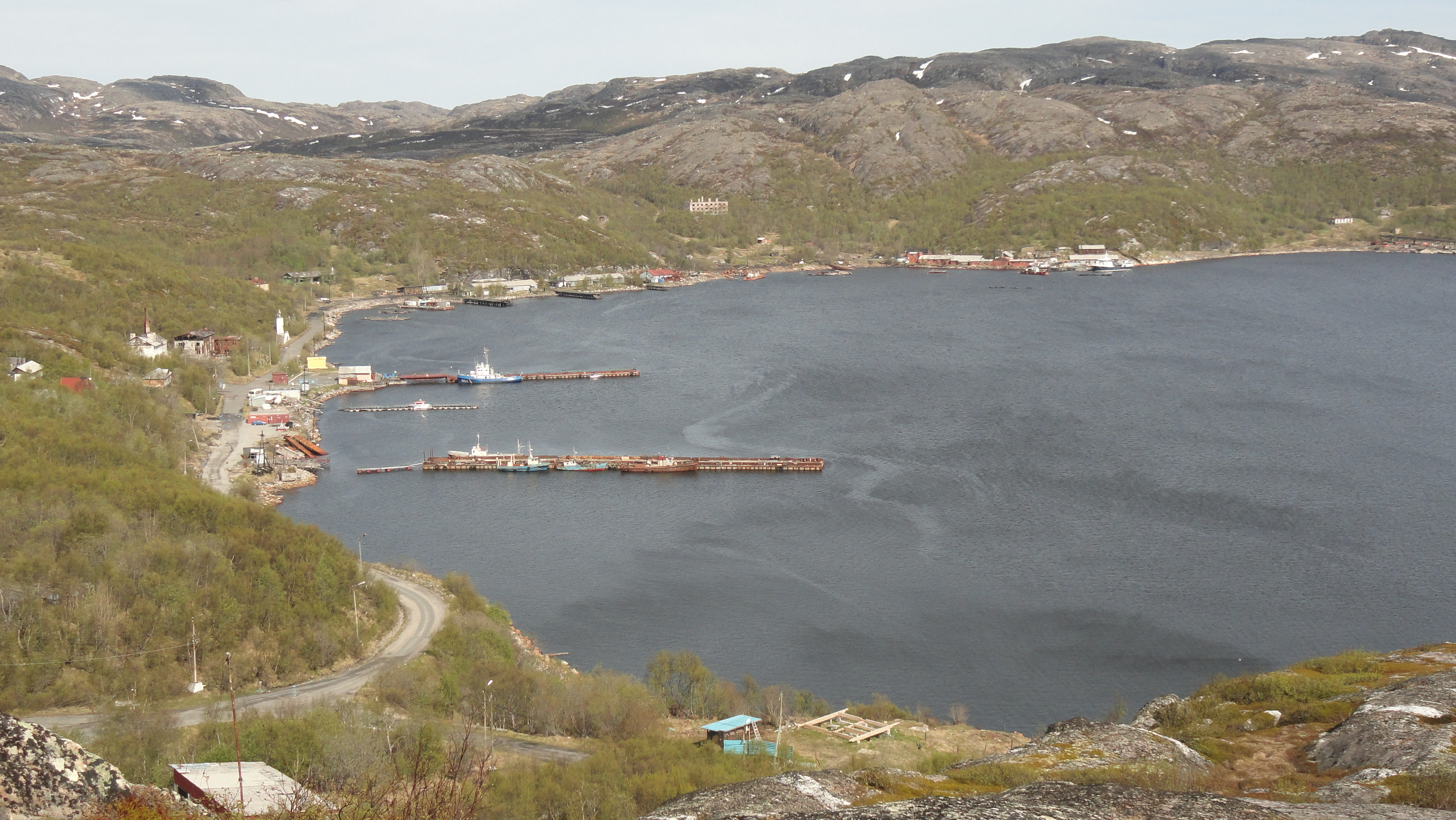 Harbour of Liinahamari